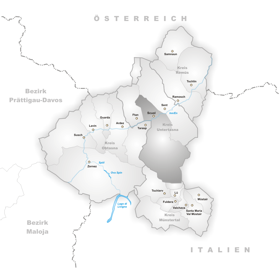 Municipality Scuol